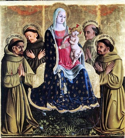 Madonna mit Franziskanerheiligen (2. Person von links Simon von Collazzone), um 1450